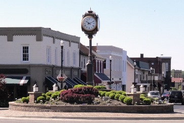 Columbiana, OH